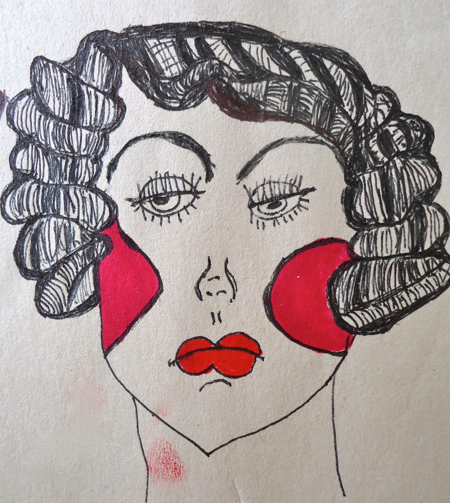 ink on paper